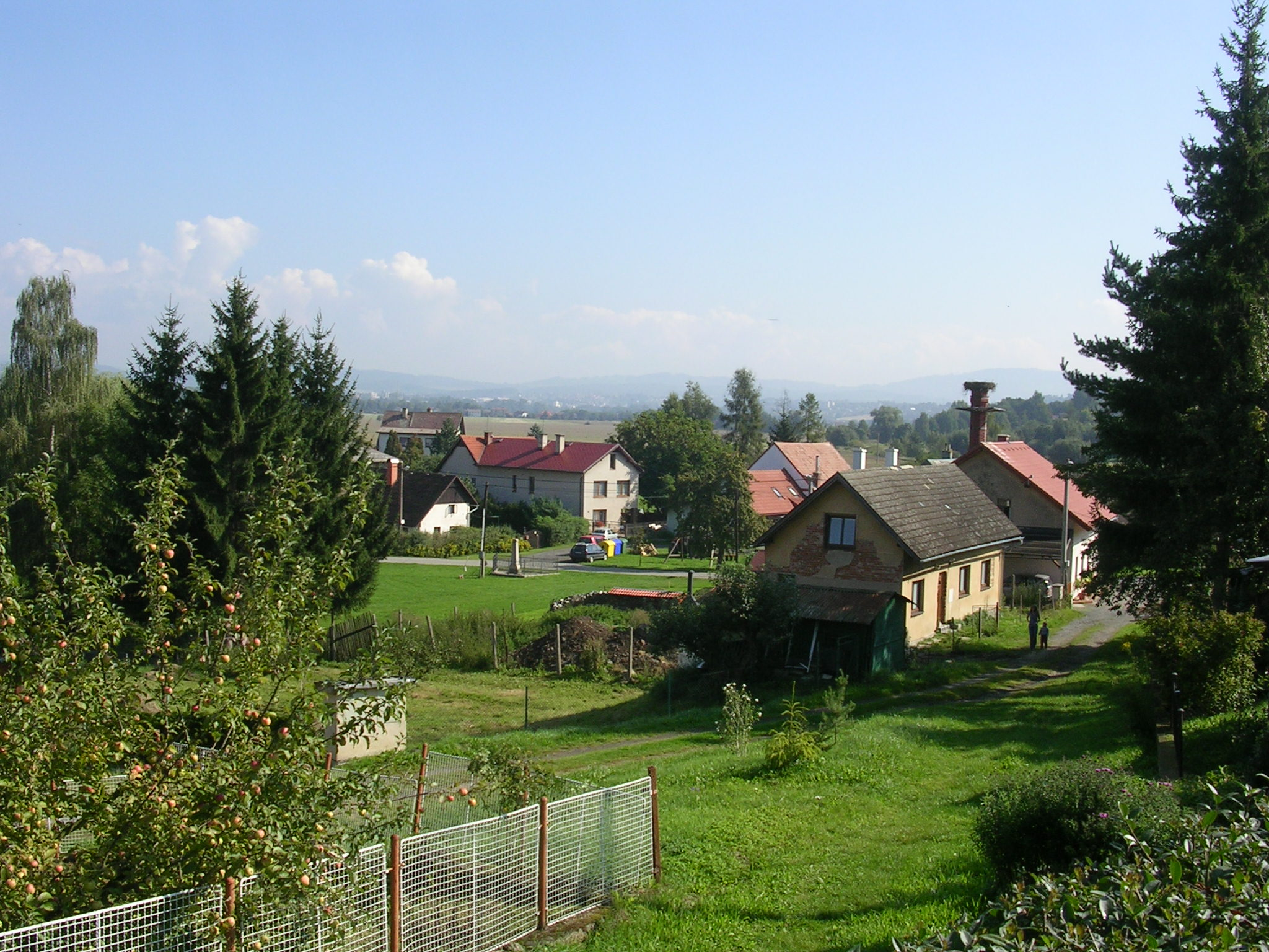 Všeň-Mokrý, Semily District, Liberec Region, the Czech Republic.